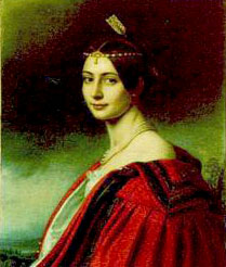 Frn Ernestine von Pfeffel (2nd wife of Fyodor Tyutchev)